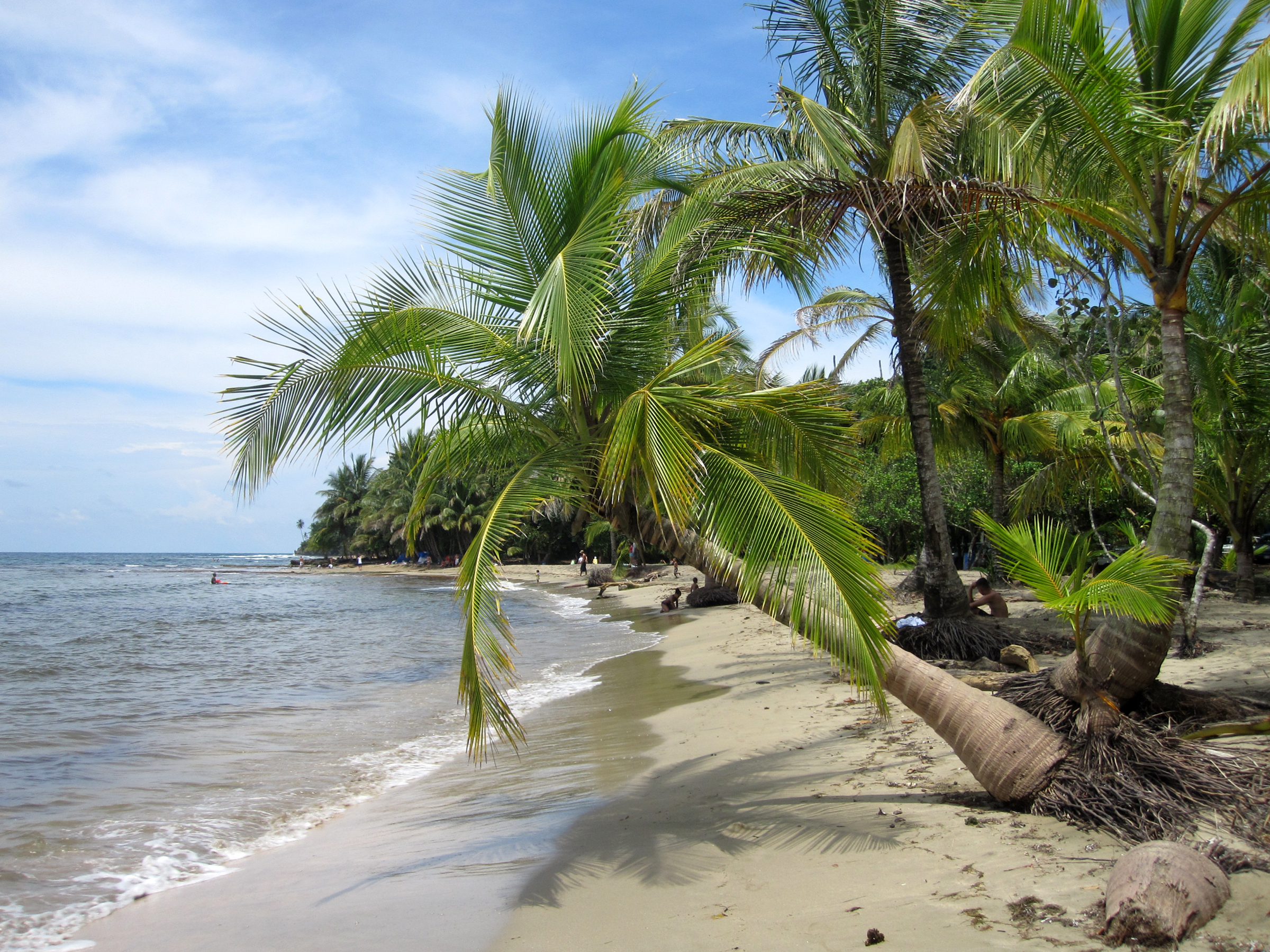 Beach in Manzanillo, Costa Rica